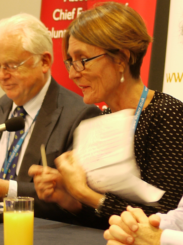 Dame Clare Tickell at NCVO and Acevo Fringe event